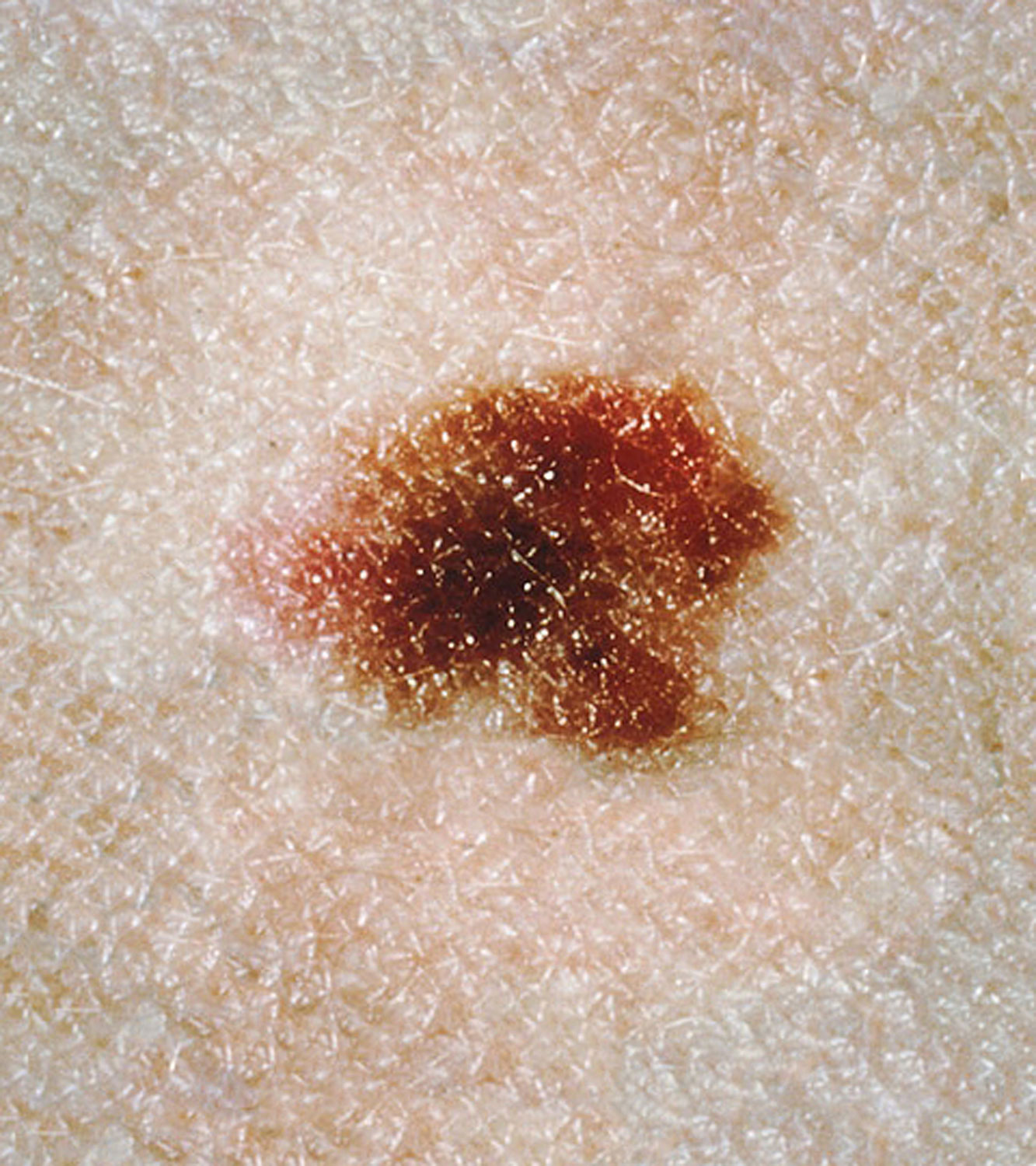 Title Dysplastic Nevi Description This large (7 by 11 mm) macular lesion displays an irregular, scalloped border, which is indistinct in some areas. In addition to hues of tan and brown, several pink areas (arrows) are present. The presence of pink colors in the macular portion of a melanocytic nevus is quite distinctive for dysplastic nevi. For additional resource, see the following web site: Topics/Categories Anatomy -- Skin Cancer Types -- Skin Cancer Cells or Tissue -- Abnormal Cells or Tissue Type Color, Photo Source National Cancer Institute